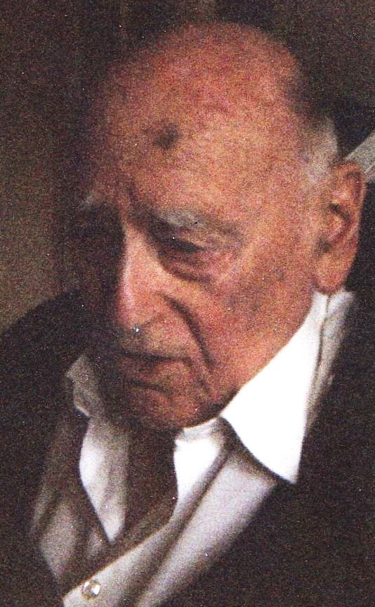 Peter Milford-Hilferding, son of Rudolf Hilferding in 2006